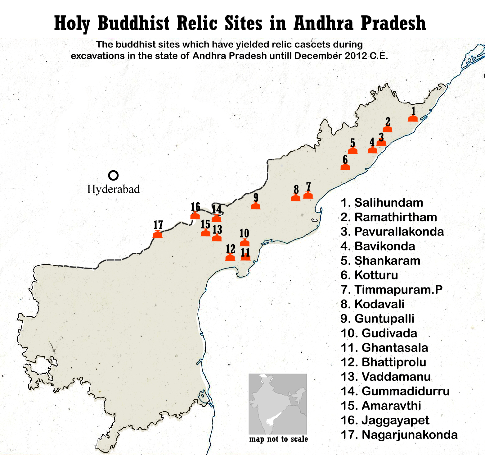 Holy relic sites map of Andhra Pradesh. The buddhist sites which have yielded relic caskets during excavations in the state of Andhra Pradesh untill December 2012 C.E. 1. Salihundam 2. Ramatheertham 3. Pavurallakonda 4. Bavikonda 5. Shankaram 6. Kotturu 7. Timmapuram.P 8. Kodavali 9. Guntupalle 10. Gudivada 11. Ghantasala 12. Bhattiprolu 13. Vaddamanu 14. Gummadidurru 15. Amaravati 16. Jaggaiahpet 17. Nagarjunakonda Note: The map is created for information and educational purposes. People using the map outside Wikipedia projects are requested to attribute it properly.